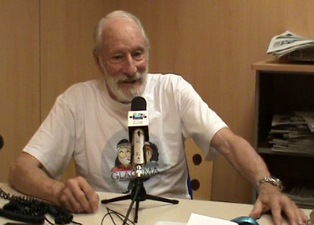 Adolfo Eraso Romero, basque geologist, glaciologist and speleologist.